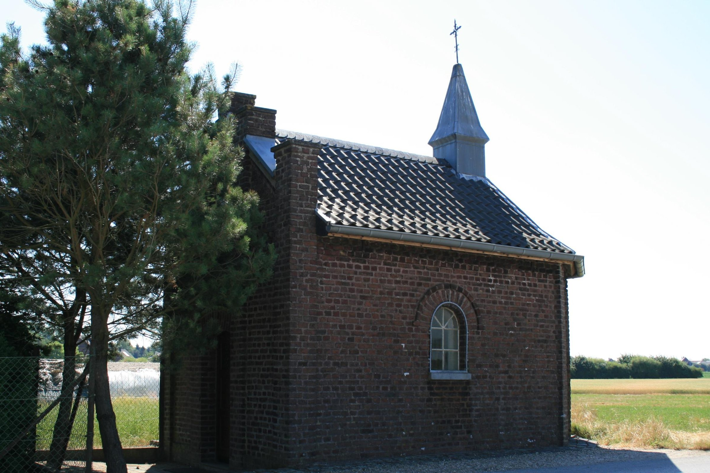 Cultural heritage monument No. P 005 in Mönchengladbach